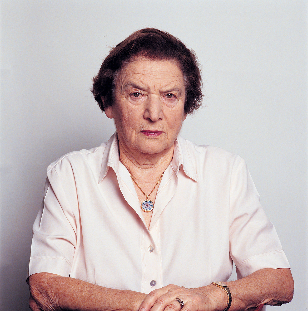 Ora Kedem (1924– ), physical chemist, Professor Emerita at Weizmann Institute of Science, Israel